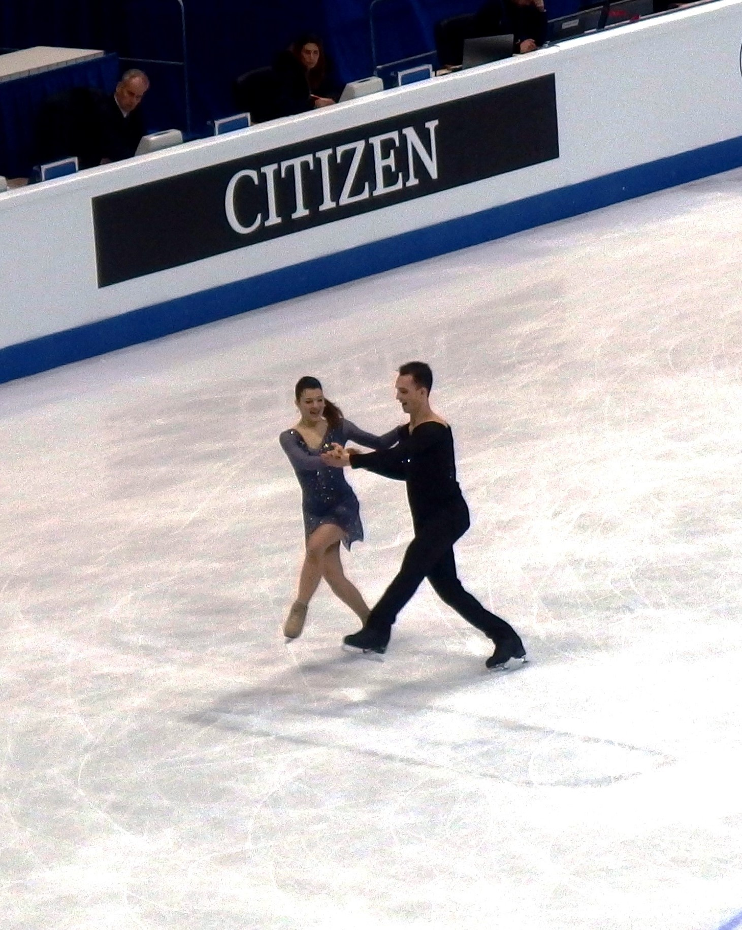 Bratislava, 2016 European Figure Skating Championships. Ice dance-Natalia Kaliszek, Maksim Spodirev, Poland (11th place).